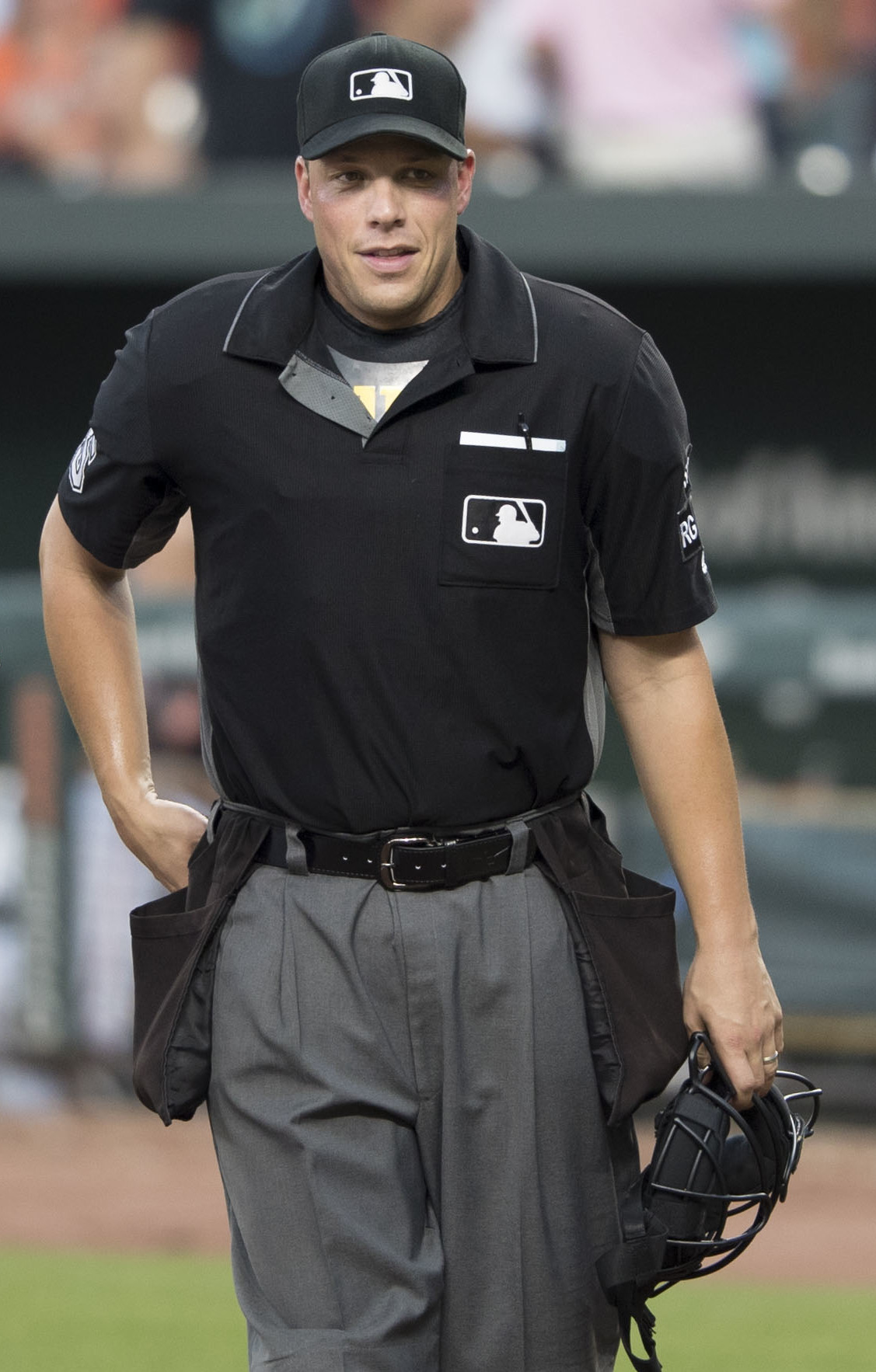 Rangers at Orioles 7/19/17